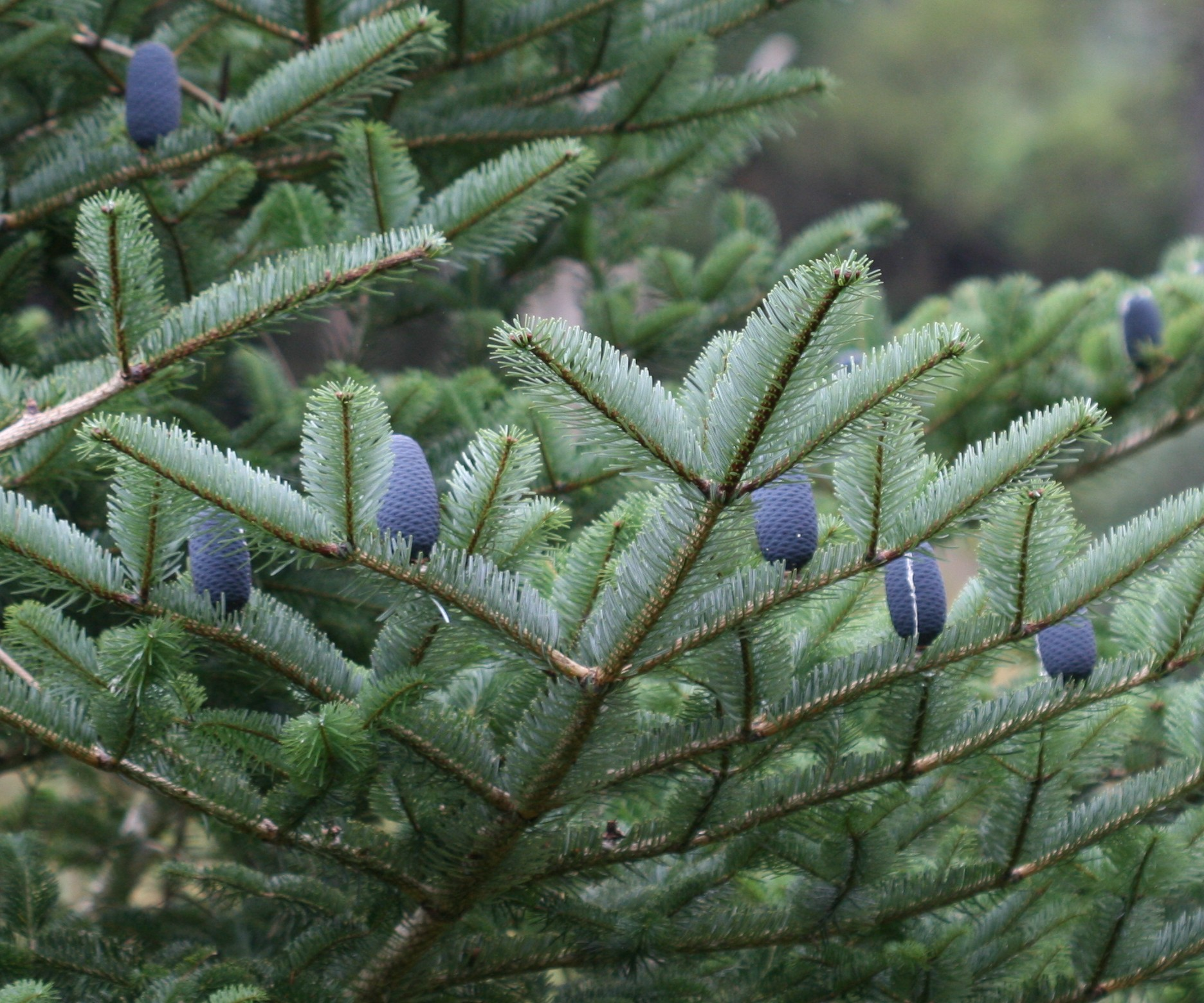 Benmore Botanic Gardens, Argyle, Scotland. Sept.09